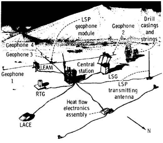 This is Figure 2-3 of the Apollo 17 Preliminary Science Report (NASA SP-330, 1973), which has the following caption:Deployment of the Apollo 17 ALSEP, showing the relative locations of the central station, radioisotope thermoelectric generator (RTG), and the five experiments.